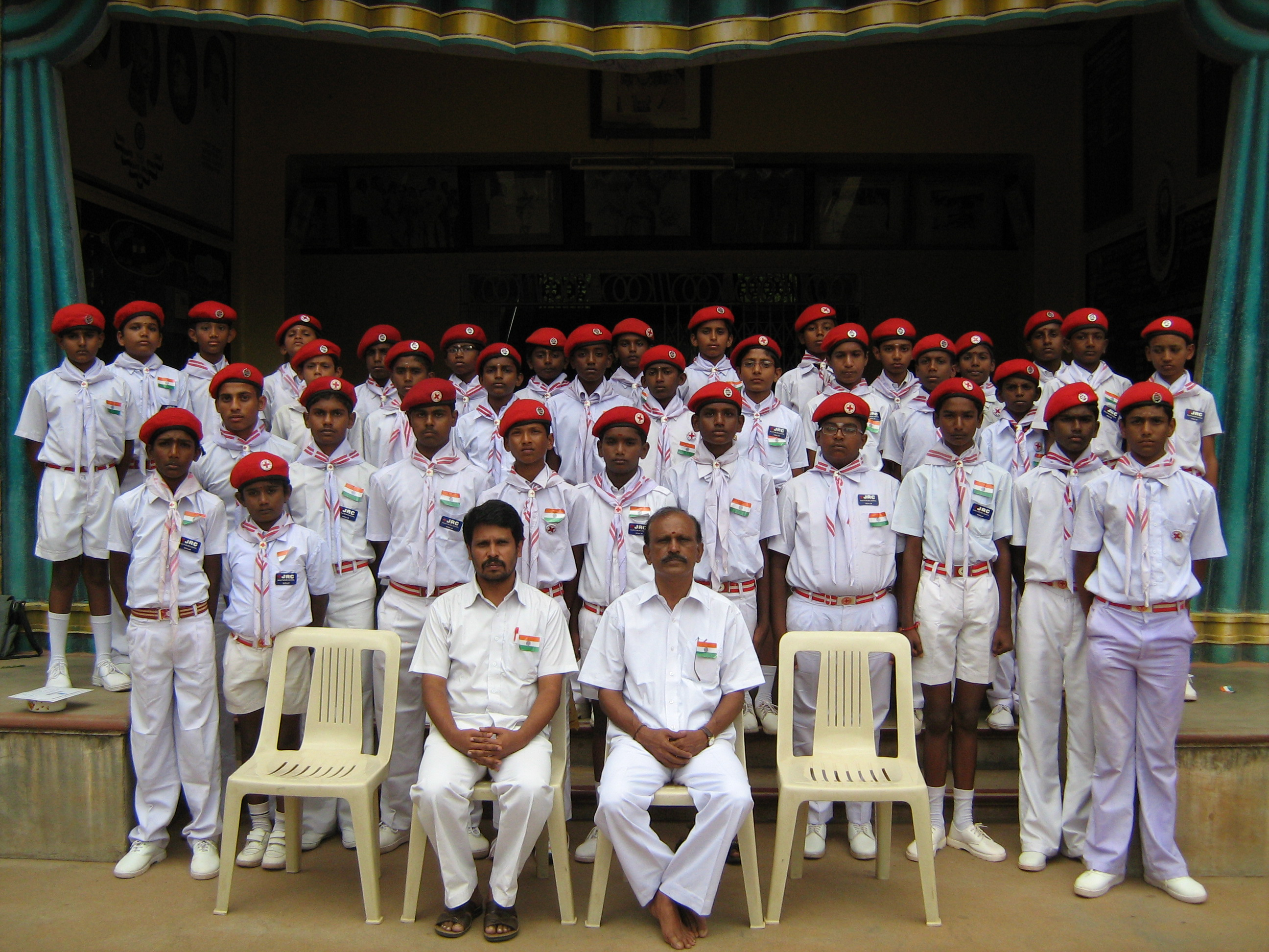 Junior Red Cross group in School